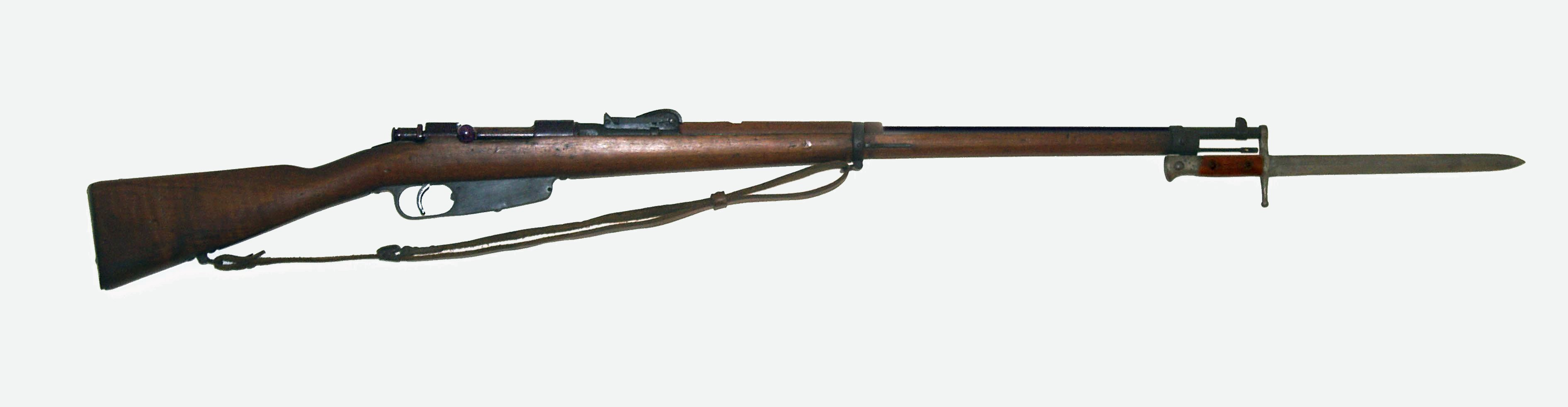 Italian Rifle Carcano mod. 1891